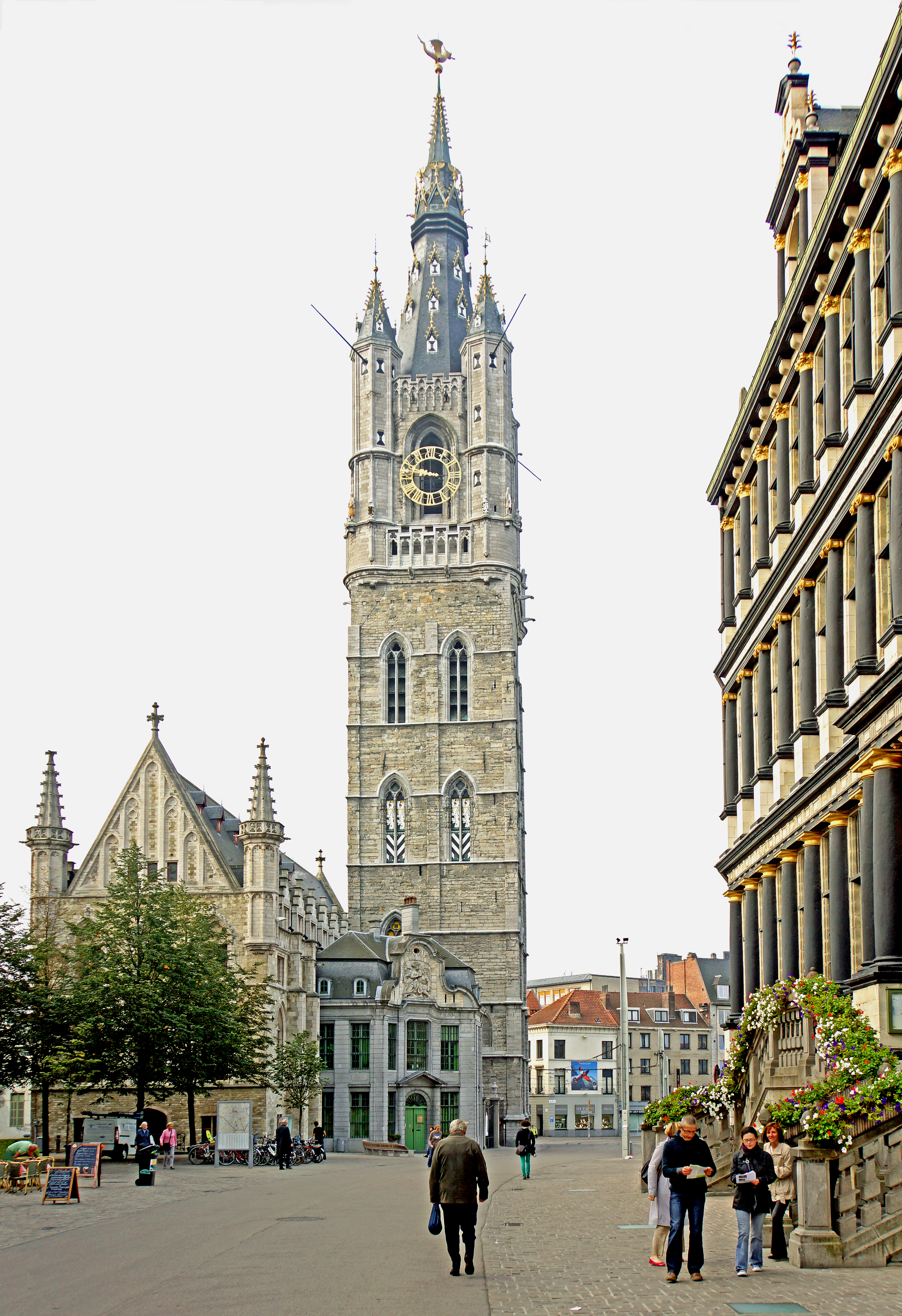 PLEASE, NO invitations or self promotions, THEY WILL BE DELETED. My photos are FREE to use, just give me credit and it would be nice if you let me know, thanks. Belfry Tower straight ahead with the Town Hall on the right. The Belfry Tower in Ghent is the 12th century Bell Tower that is located in the city's historical centre. The Belfry is called Belfort in Flemish. This Gothic medieval complex of bell tower and cloth exchange is evidence of Ghent's power and wealth during the Middle Ages, when it was for a time the richest city north of the Alps.